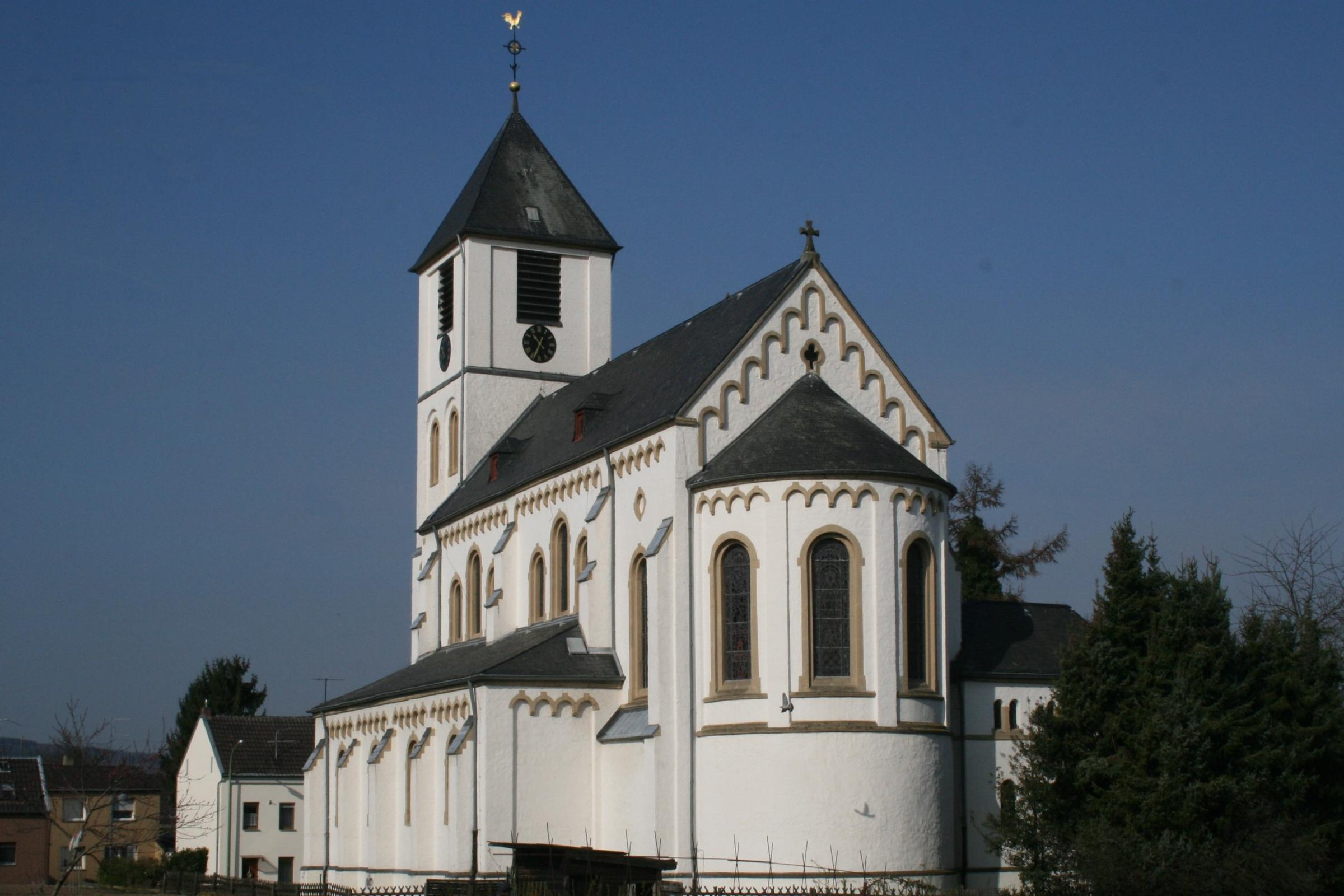 Cultural heritage monument No. 4/003 in Düren